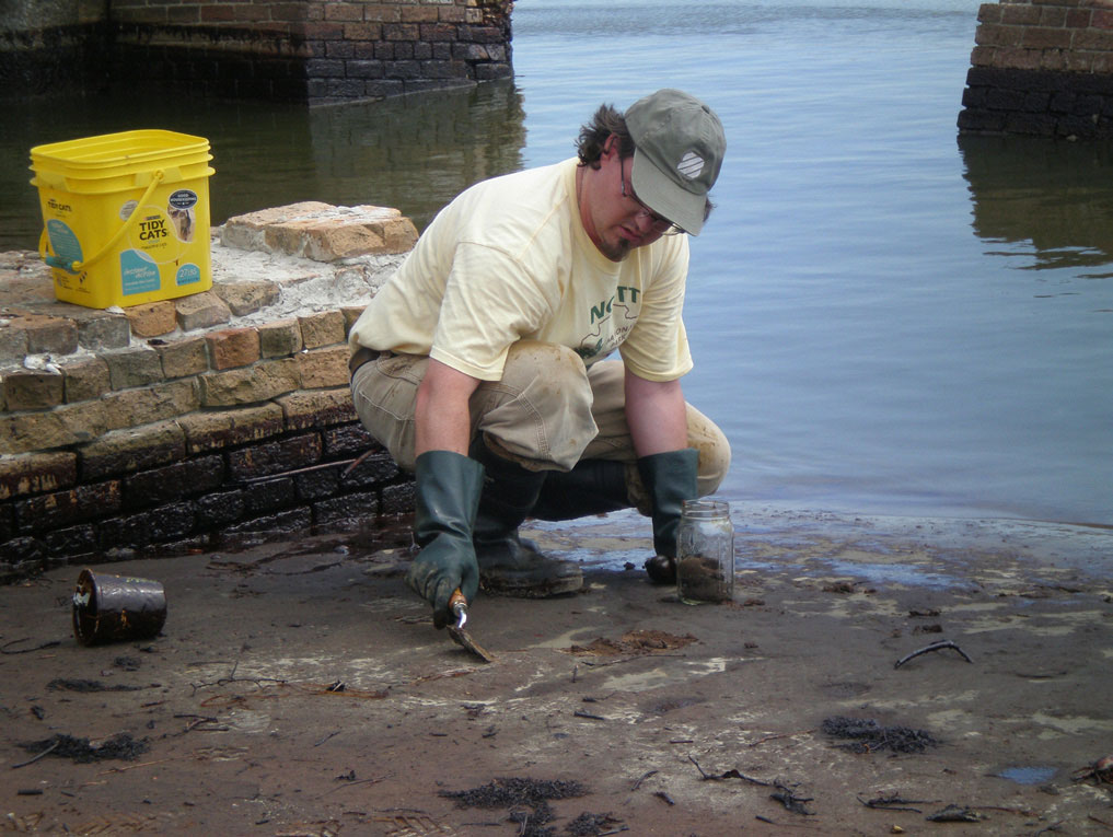 Ruins of Fort Livingston, Louisiana. Contamination from BP Deepwater Horizon Oil Spill disaster. Jason Church collecting samples of oiled sand; station 6, northwest of the exterior wall of Fort Livingston. Note the oil on the bricks on the left side of the photo and in the background on the fort’s outer wall.